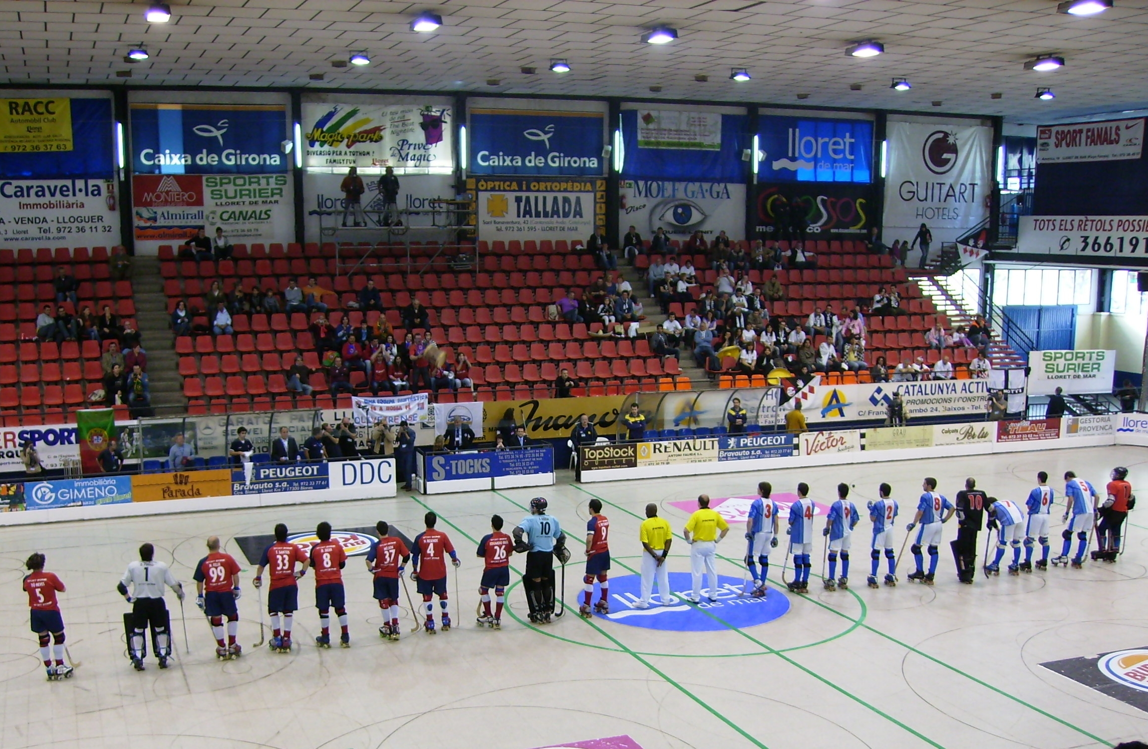 2008-09 CERS Cup Final Four (Lloret de Mar, Catalonia) - Semifinal CH Mataró - UD Oliveirense